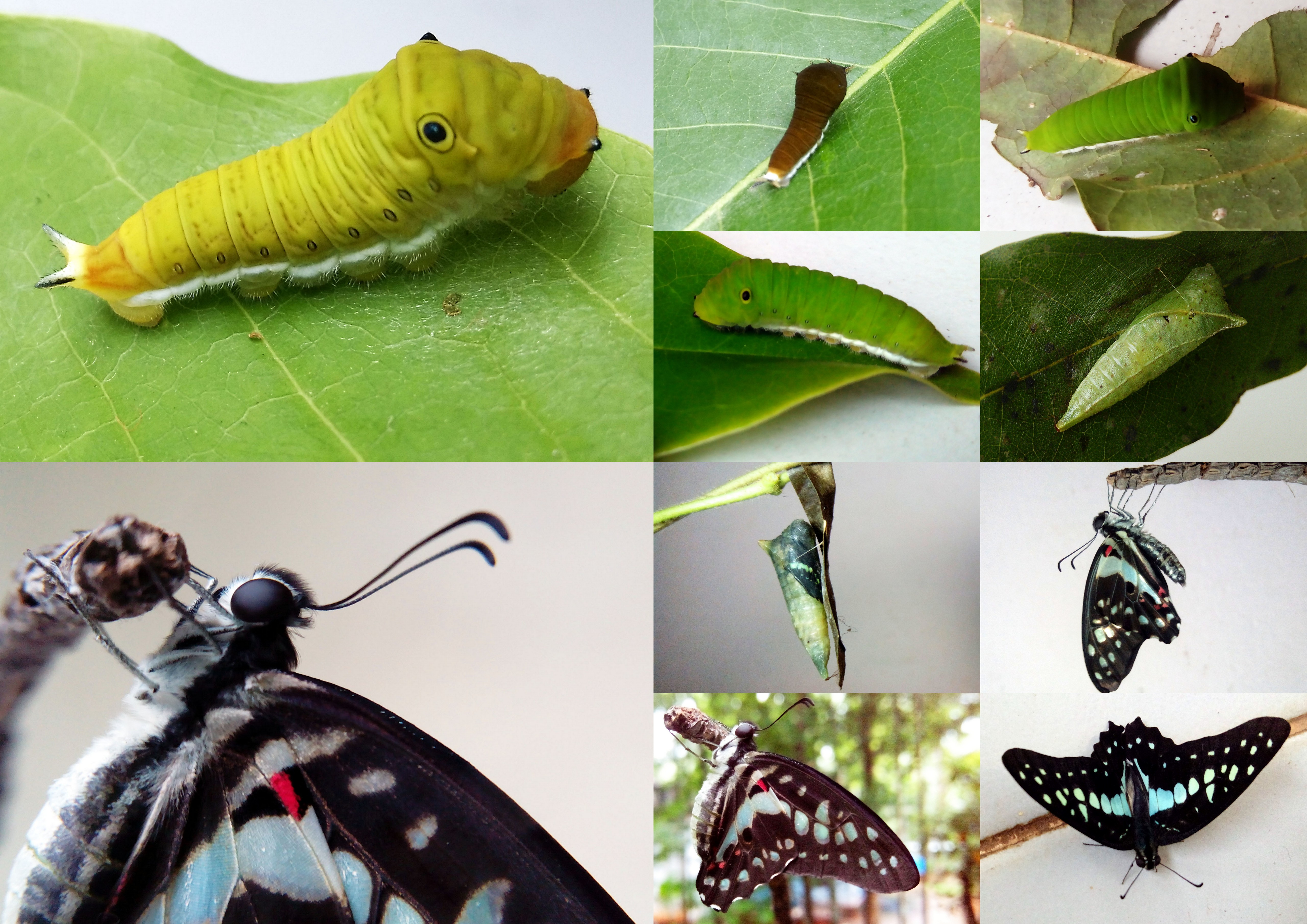 Period: 30.05.2015 to 19.06.2015 2015.05.30 - Larvae (ശലഭപ്പുഴു) 2015.06.07 - Pupa (ശലഭപ്പൊതി) 2015.06.19 - Butterfly (ശലഭം) . Host Plant: Magnolia champaca / Champak / ചെമ്പകം Place: Pookkottur, Malappuram Dist, Kerala State